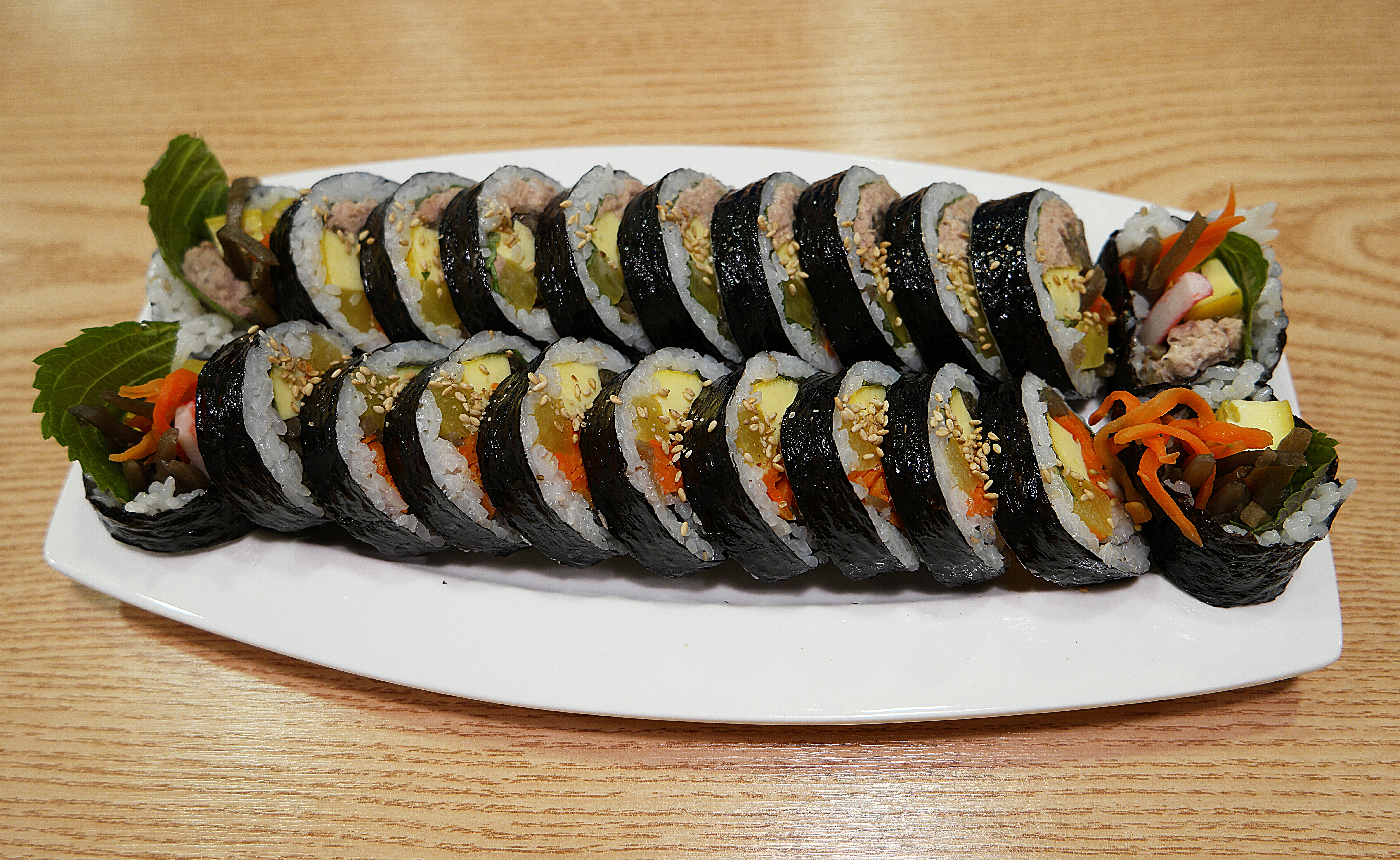 Gimbap (seaweed roll)